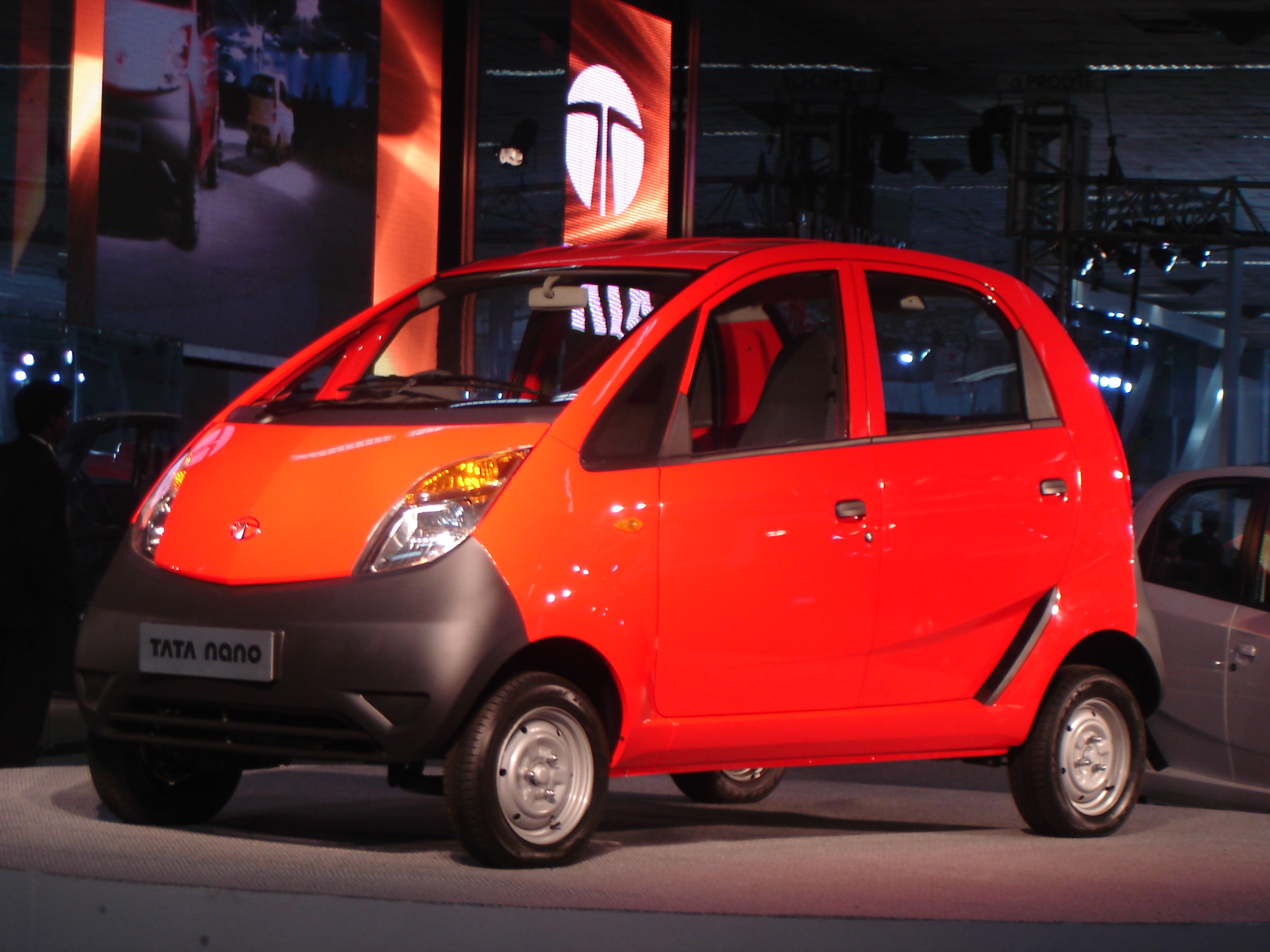 Tata NANO at the Auto Expo 2008